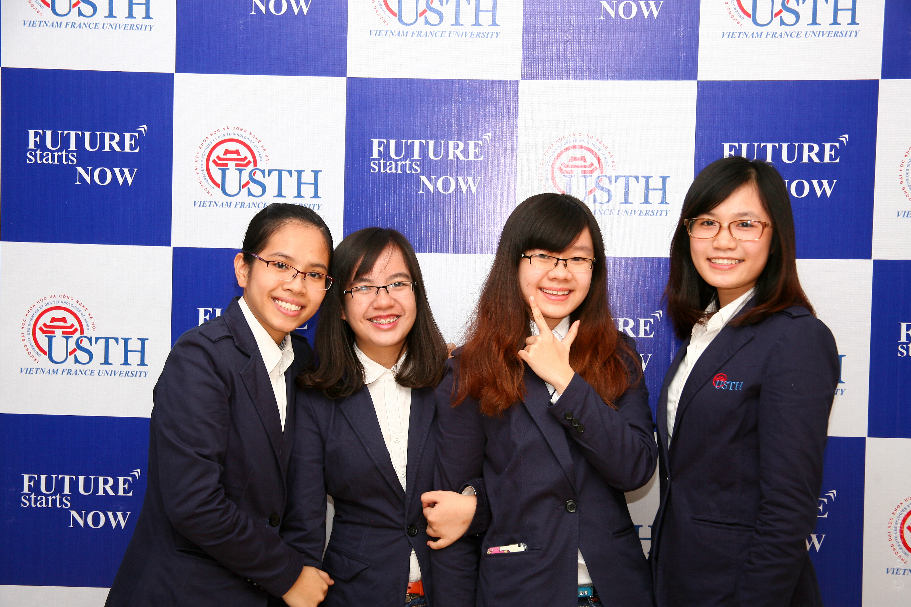 USTH